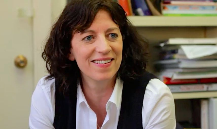 Dr. Jo Boaler